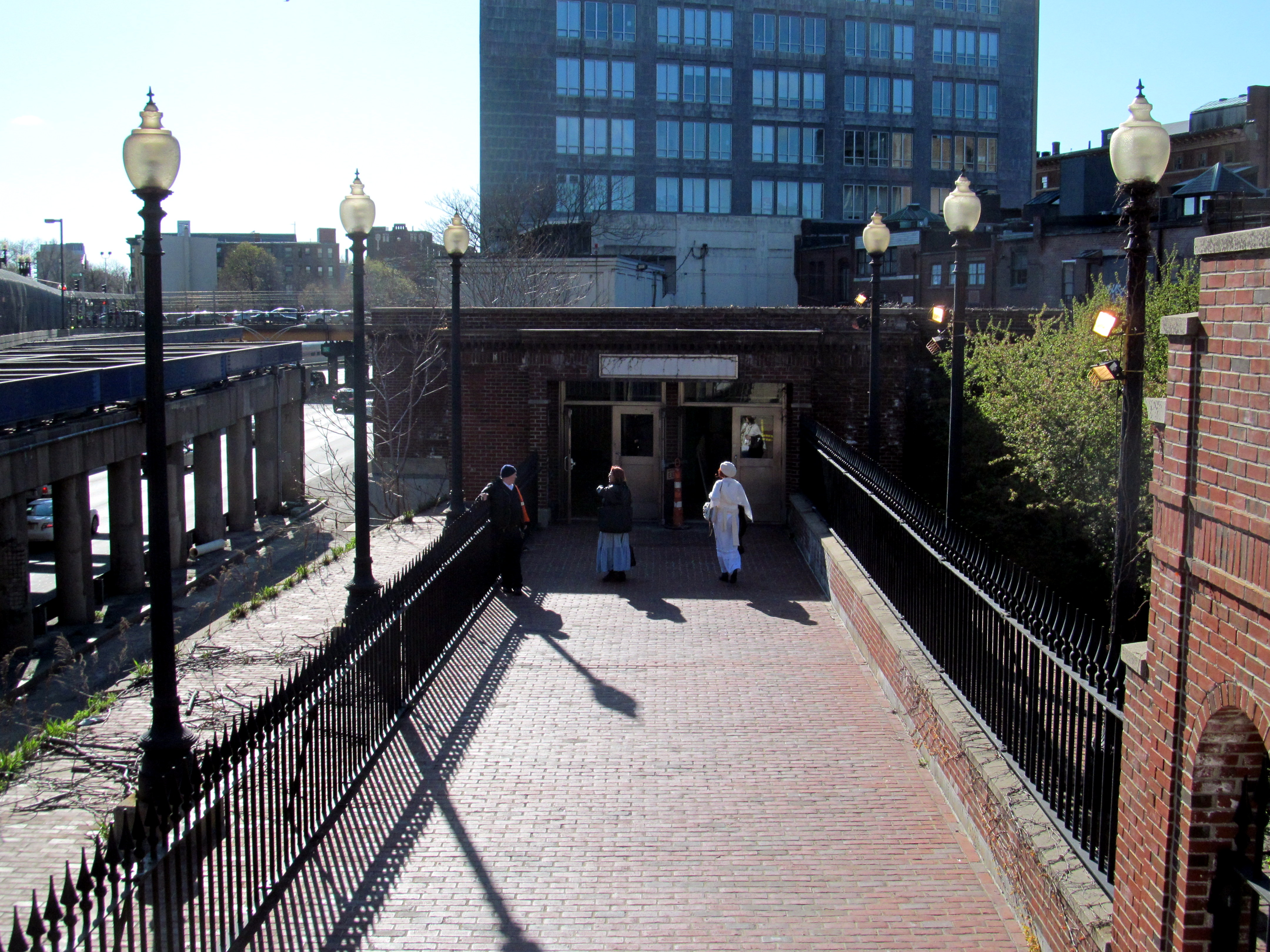 The rarely-used Boylston Street entrance to Hynes Convention Center station, only opened on Marathon Monday and for Anime Boston at the Convention Center.